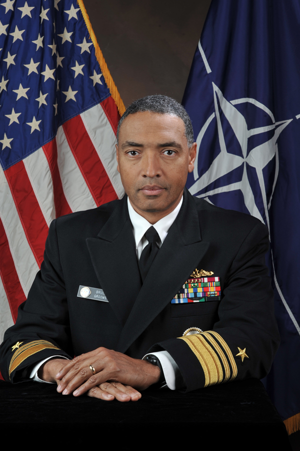 VADM Bruce E. Grooms